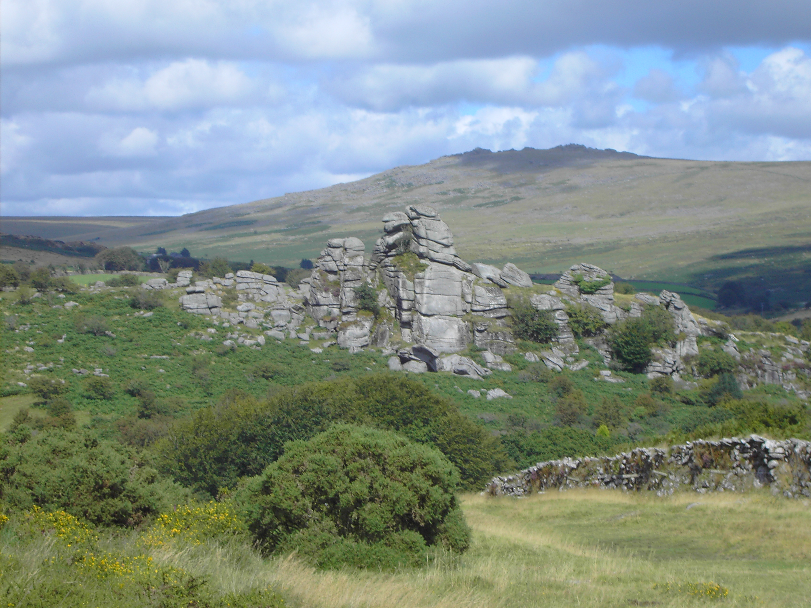 Vixen Tor on Dartmoor viewed from the south, with Great Staple Tor beyond it.